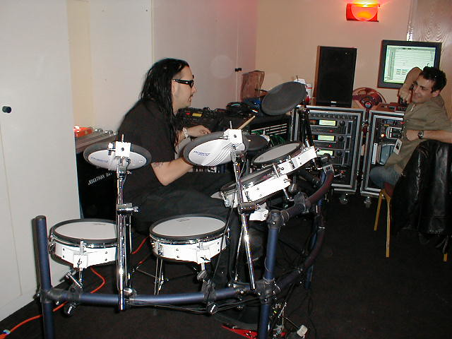 Jonathan Davis - Queen of the Damned film soundtrack - 2000 - London